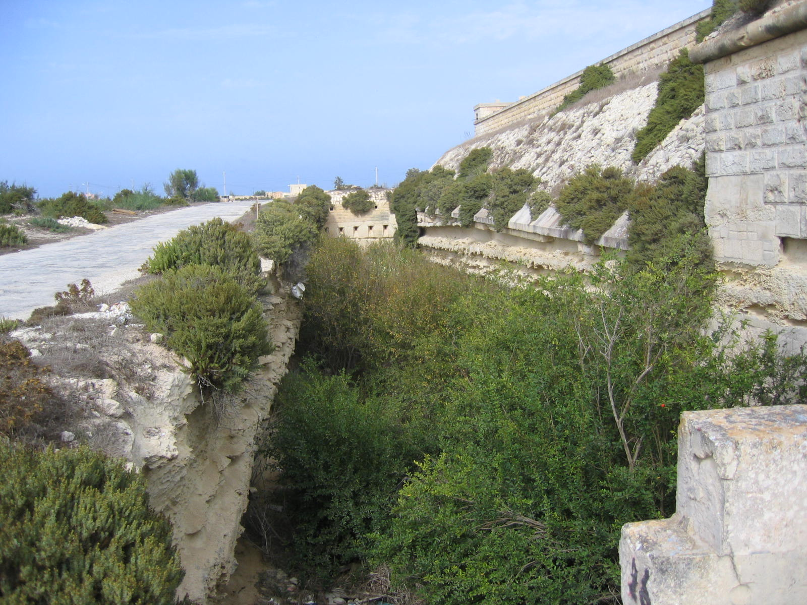 Fort Delimara. Counterscarp battery, east end of north ditch. Point Delimara, Malta.